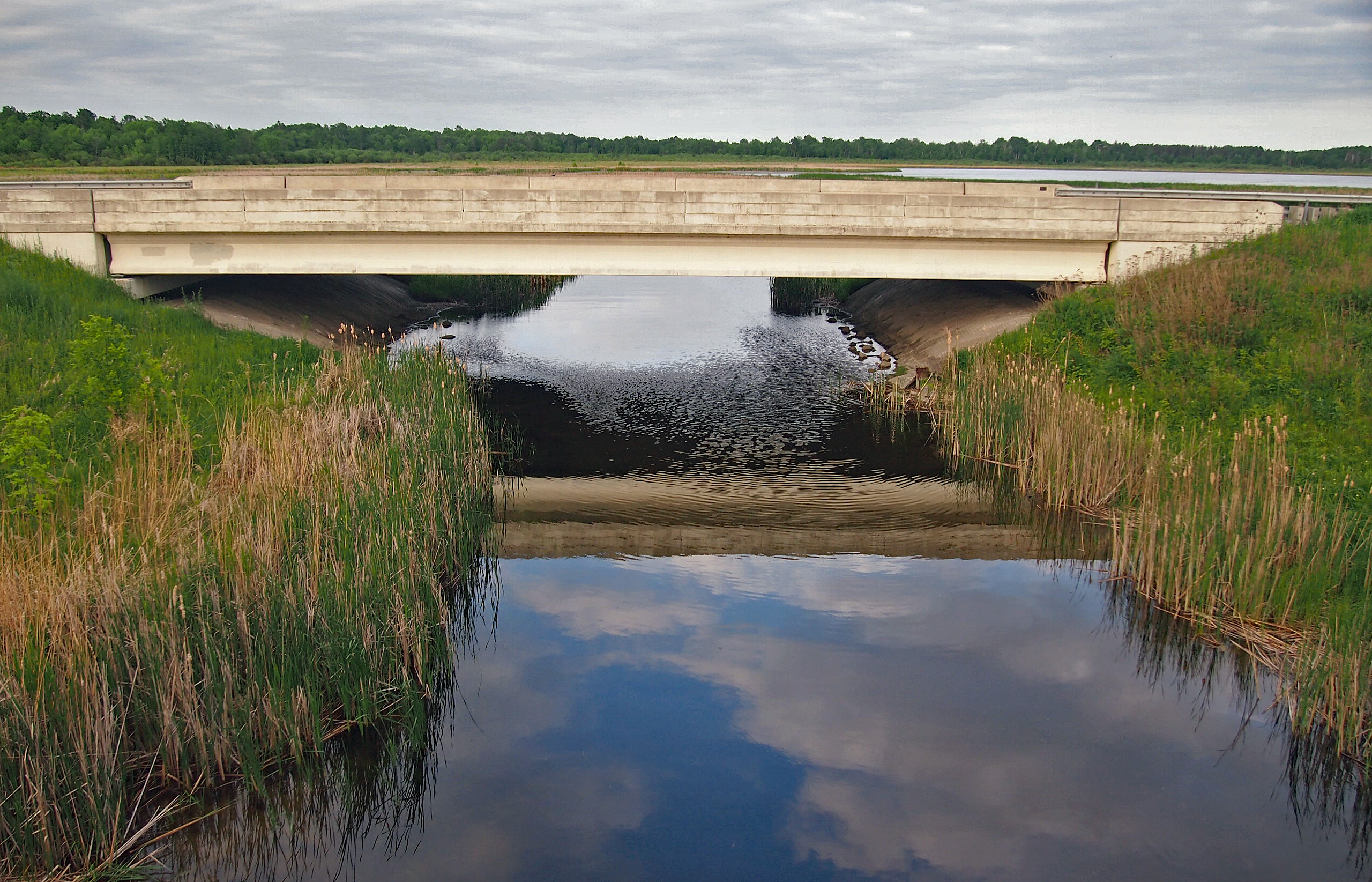 Steamboat River and Highway 371 bridge from the Heartland State Trail, Wilkinson Township, Minnesota, USA. View looking east.